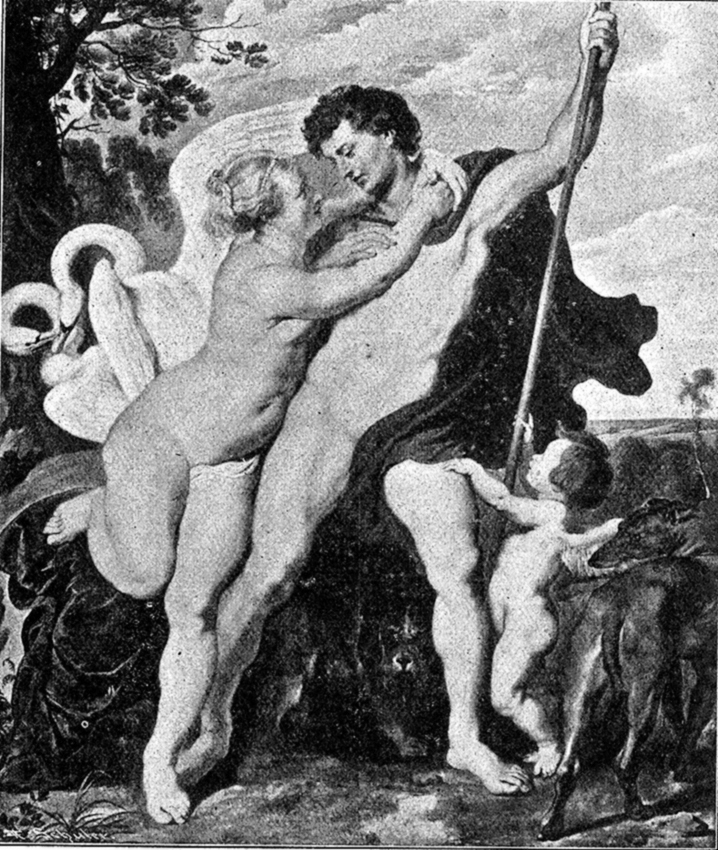 'Venus and Adonis', by Peter Paul Rubens, ca. 1610-1611. The painting was destroyed or disappeared in Berlin in May 1945, in the Friedrichshain flak tower fire. - Dimensions: 112.5 x 96 cm - Oil on canvas